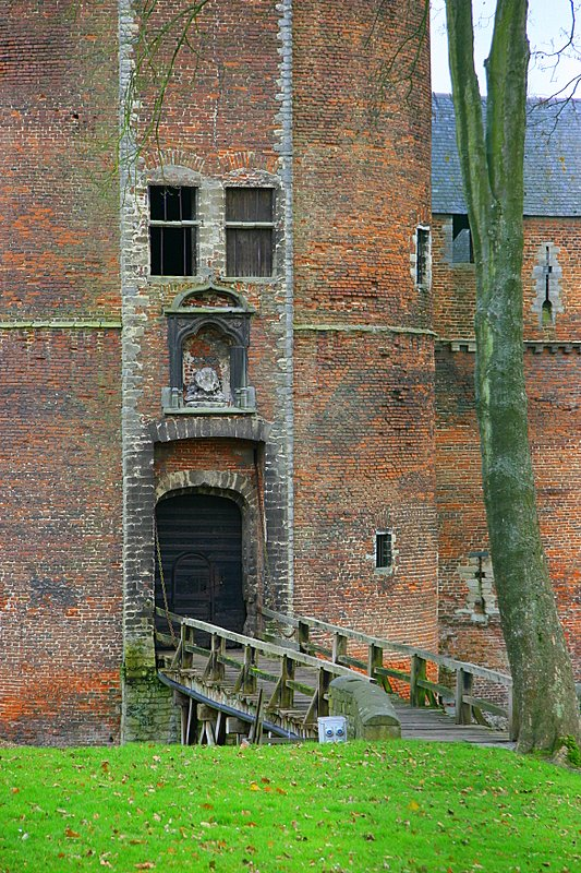 Castle of Beersel